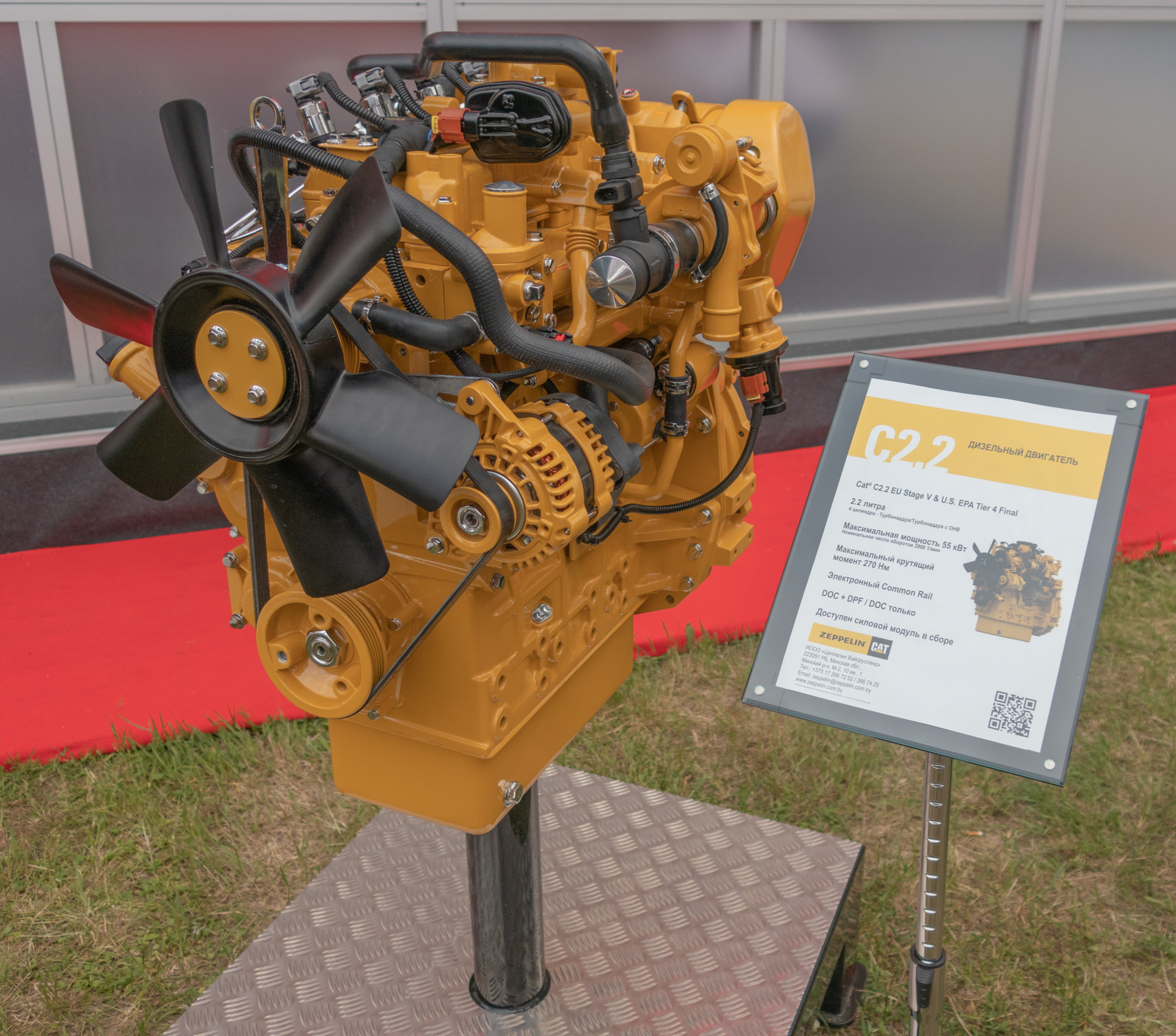 Caterpillar C2.2. Photo taken at Belagro-2019 exhibition (Minsk district, Belarus)